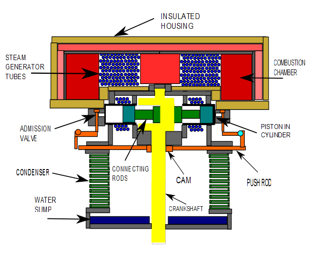 Cross Section of Cyclone Mark V Engine. Fuel is burned in the Combustion Chamber (red) and heat from the gasses is transferred to water in the Steam Generator (blue circles) turning it into steam. Cam and Pushrod operated Valves (orange) admit steam to the Cylinders (black), pushing on the Pistons (teal) and turning the Crankshaft (yellow) via the Connecting Rods (green). Exhaust steam is condensed back to water by the corrugated Condenser (green) which is stored in the Sump (blue).